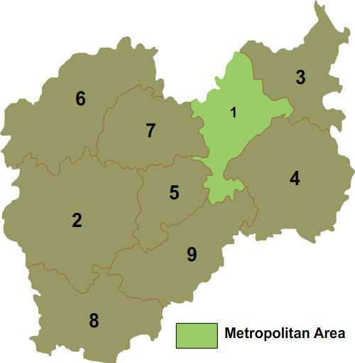 county-level divisions of Lishui in Zhejiang province, China